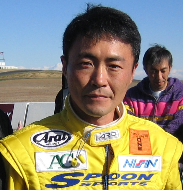 Kazunori Yamauchi drove for Spoon Sports at 25 Hours Of Thunderhill 2009